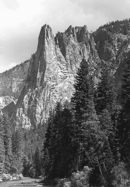 Sentinel Rock, Yosemite National Park, California, United States